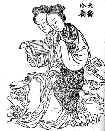 Qing dynasty portrait of the two Qiaos